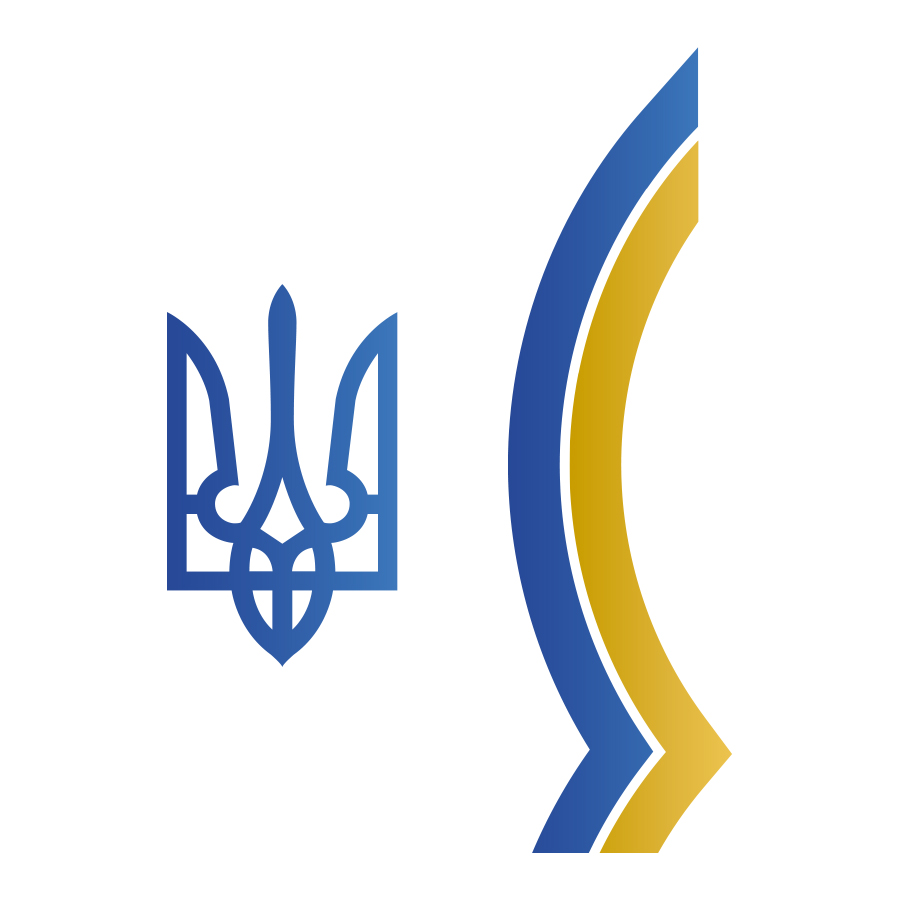 Державне агентство рибного господарства України